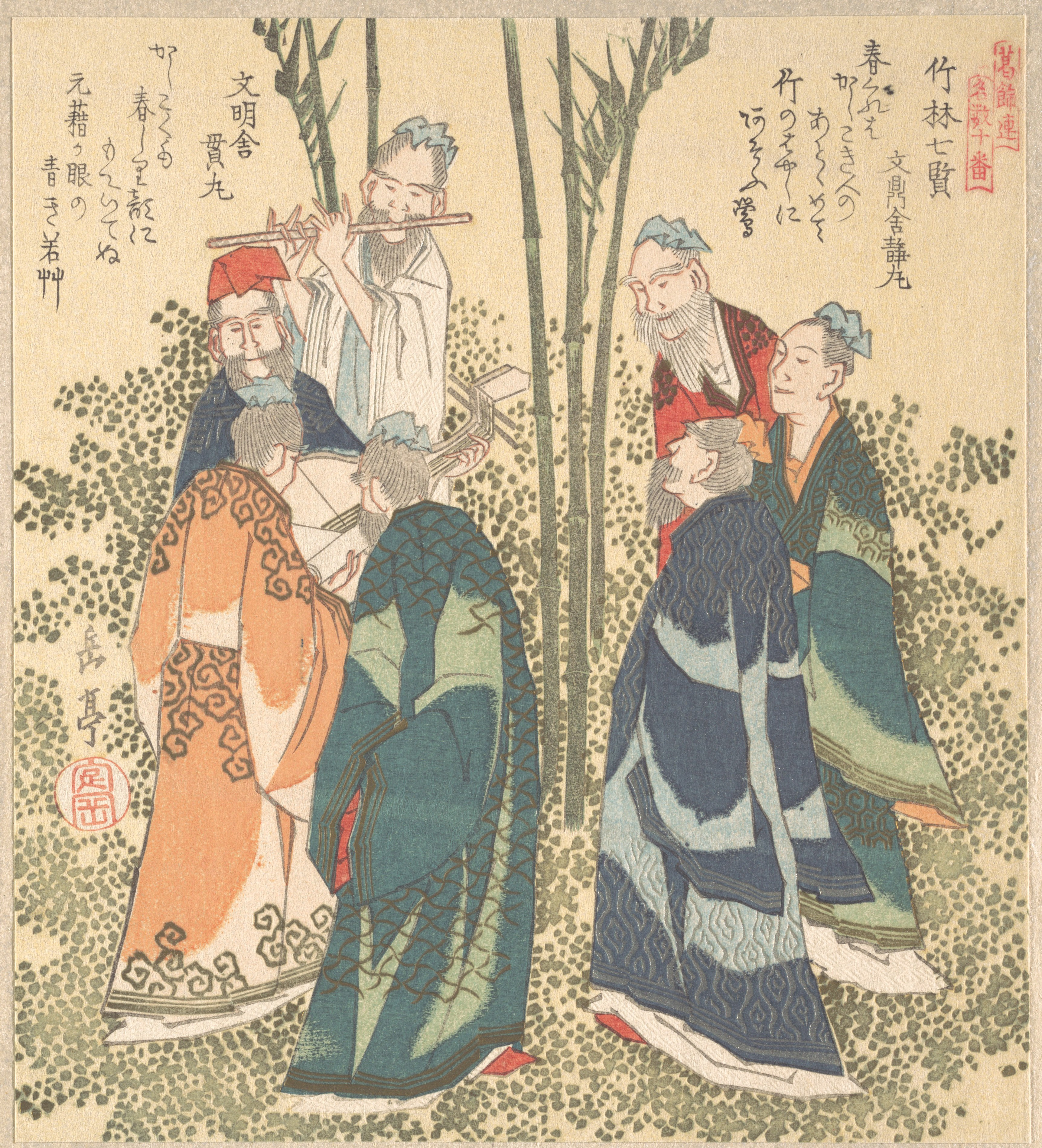 Seven Sages in the Bamboo Grove Polychrome woodblock print (surimono); ink and color on paper 8 1/8 x 7 5/16 in. (20.6 x 18.6 cm)